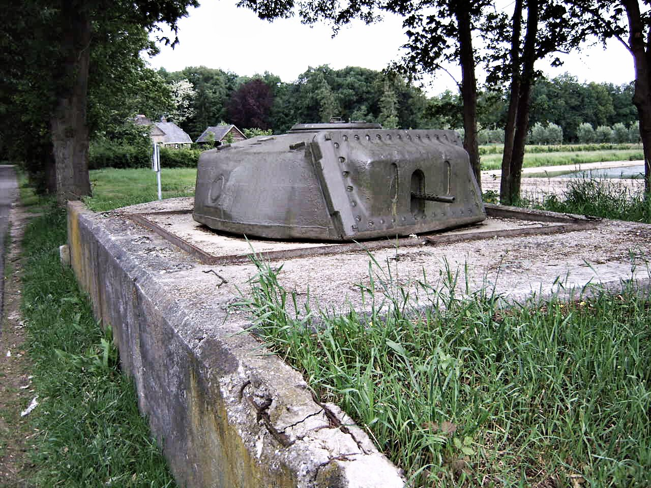 Reconstructed small fortification, consisting of a RAM tank encased in concrete. Part of the IJssellinie inundation works, east of the IJssel river, near Olst, the Netherlands. Picture used in IJssellinie